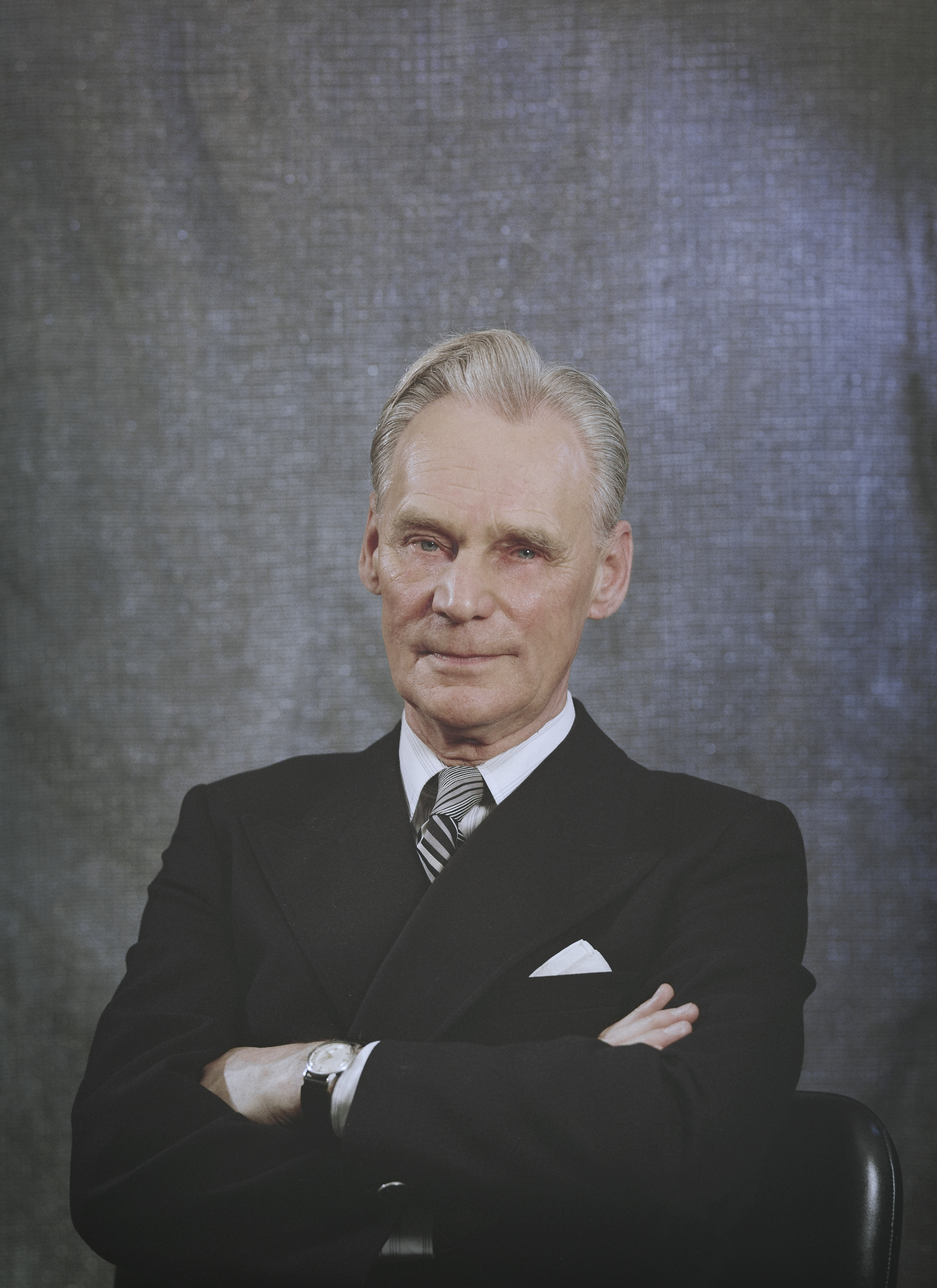 Photograph of the Finnish writer and linguist Jarl Louhija (1908–1981).